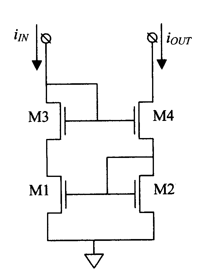 NMOS Wilson current mirror with a fourth transistor to equalized drain-source voltages of M1 and M2